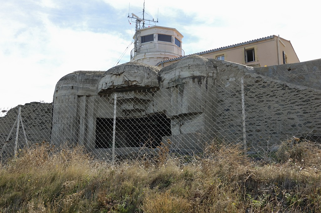 Cape Béar Südwall Fortifications